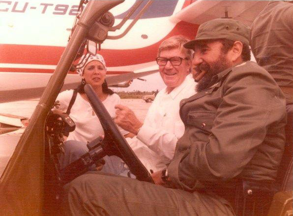 J. Paul Austin, president, CEO and chairman of The Coca-Cola Company meets with Fidel Castro in Cuba, in 1977.